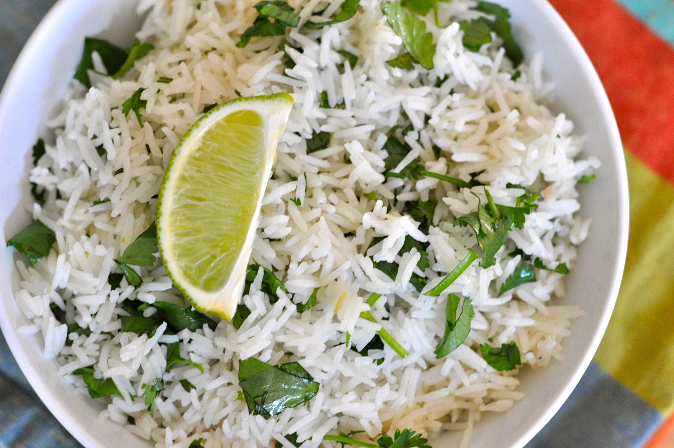 Arroz long grain basmati cooked